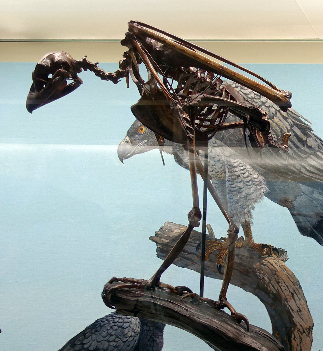 La Brea Tar Pits Museum - Prehistoric Birds